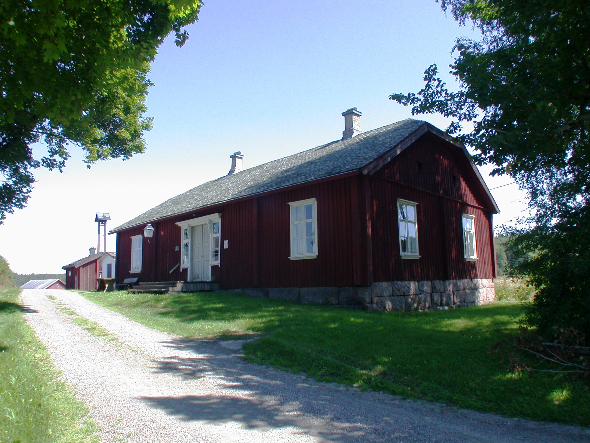 Långelanda old court house, Årjäng, Sweden